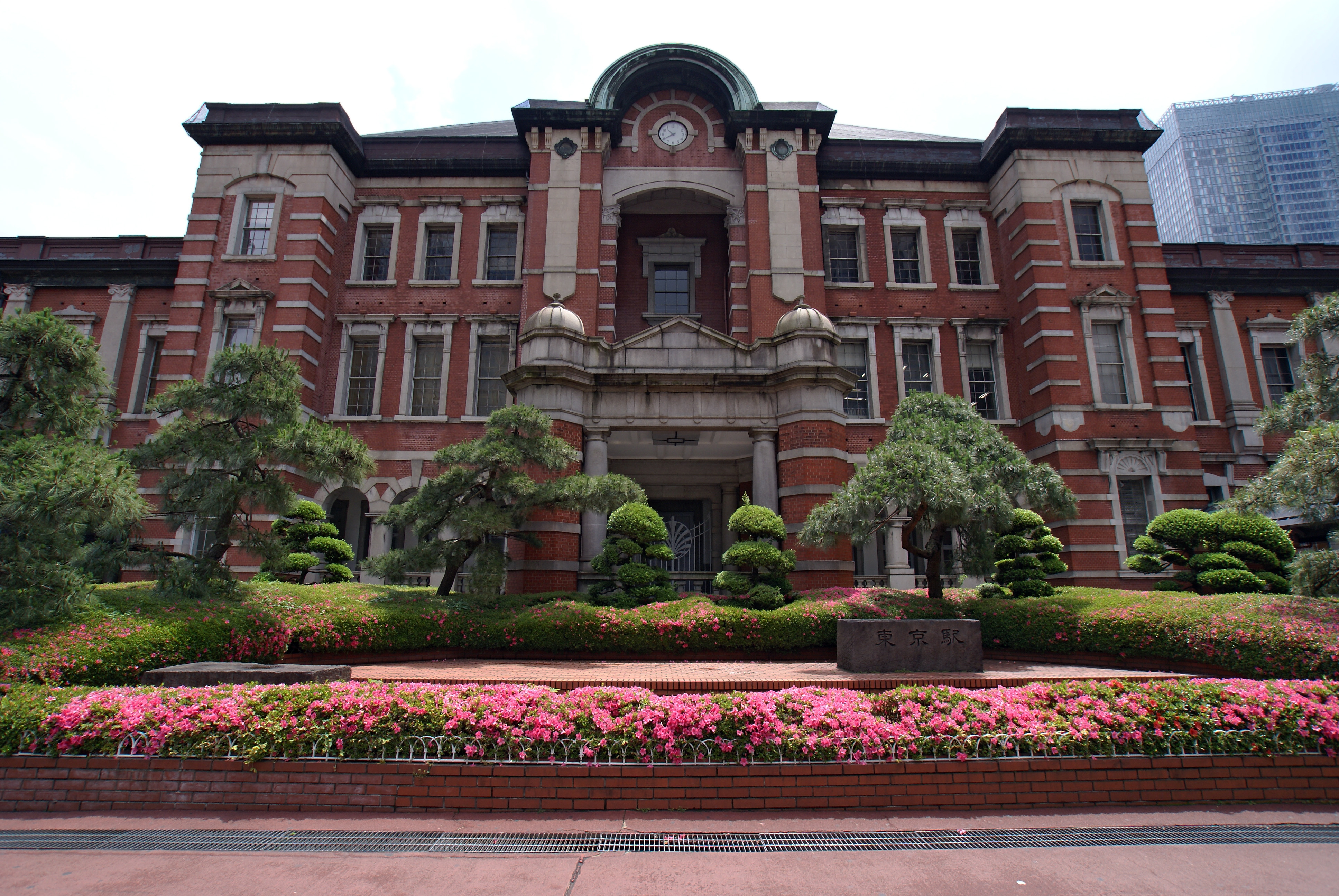 Facade of the Tokyo Station (Marunouchi building) in 2007.